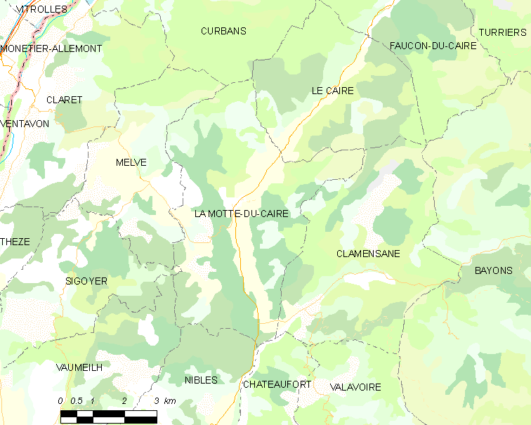 Map commune FR insee code 04134.png Légende